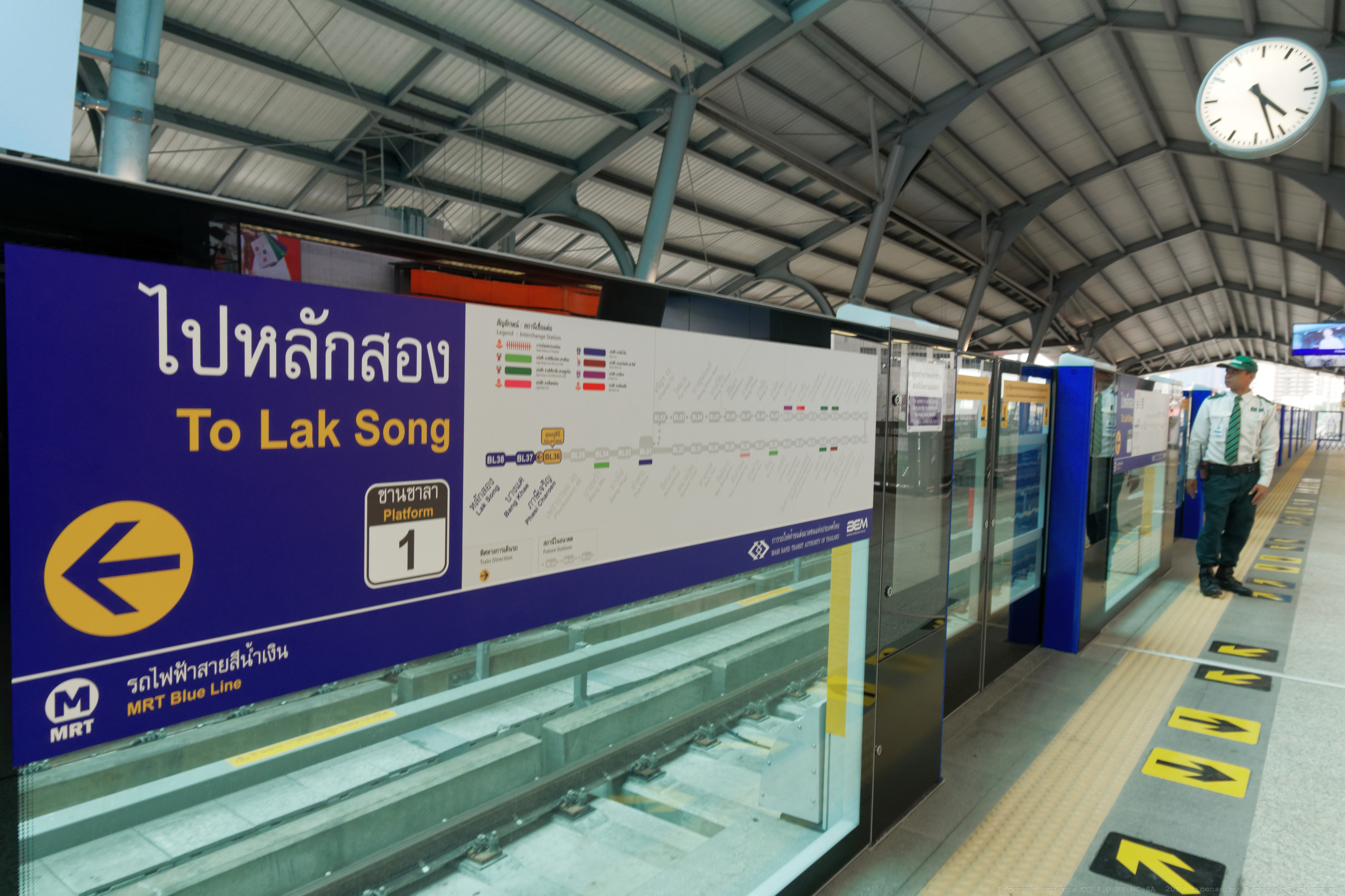 MRT Phasi Charoen station: a platform with the route information on Lak Song side